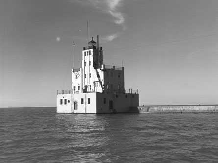 The Milwaukee Breakwater lighthouse is located in the harbor of Milwaukee in Milwaukee County, Wisconsin.